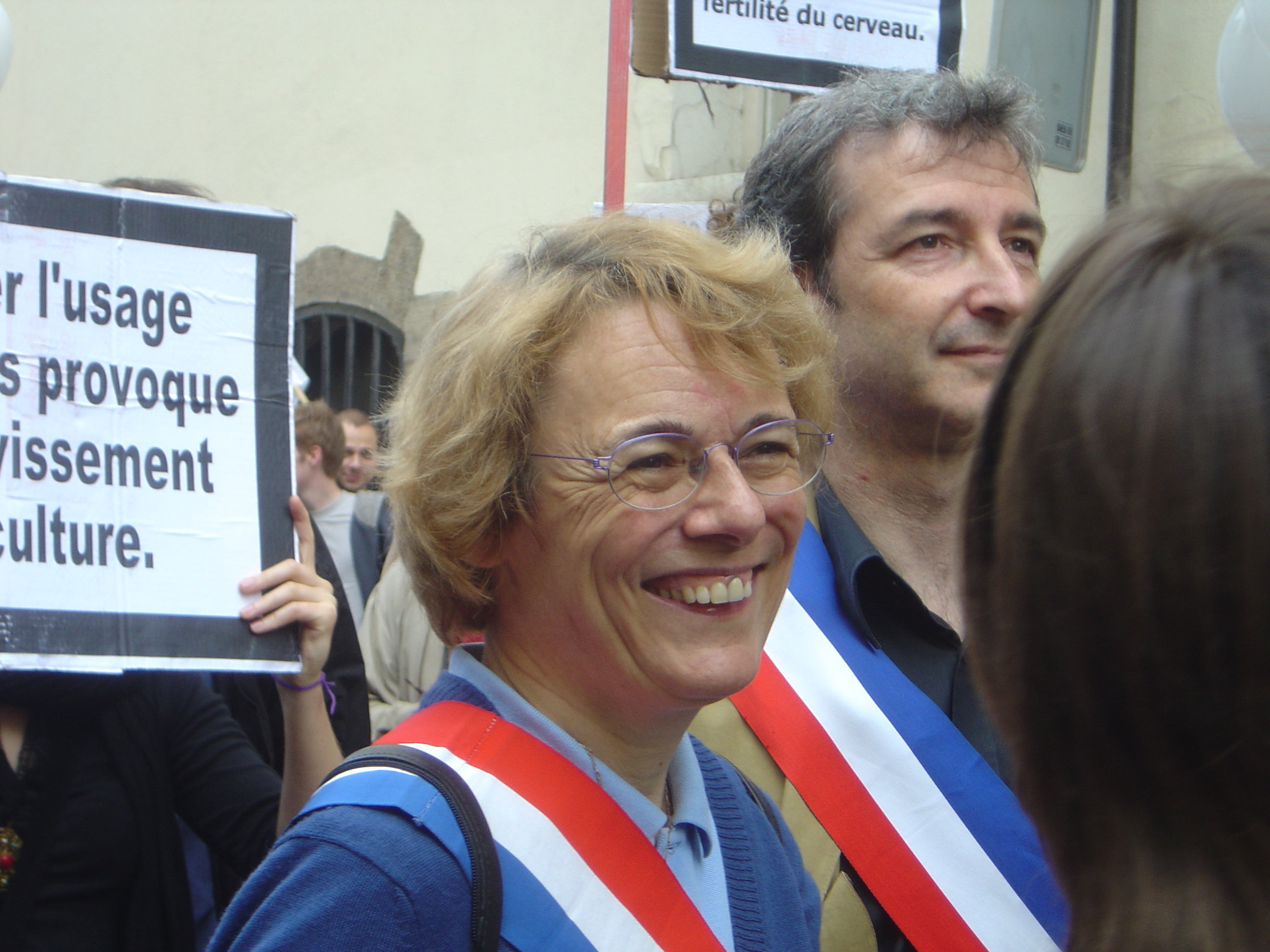 March against digital rights management techniques and the DADVSI copyright law (from Bastille plaza to the Ministry of Culture).